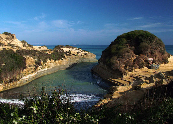 Corfu. Sidari Canal d'amour, Corfu.